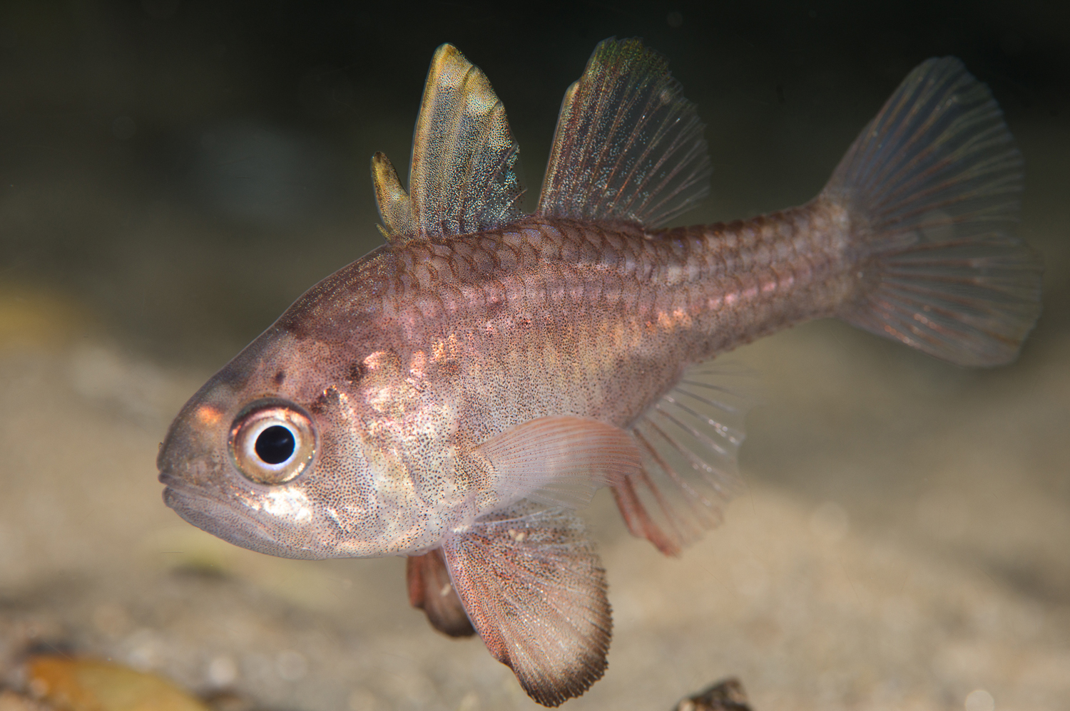 A Southern Cardinalfish, Vincentia conspersa, in Jawbone Marine Sanctuary, Williamstown, Port Phillip, Victoria, May 2016